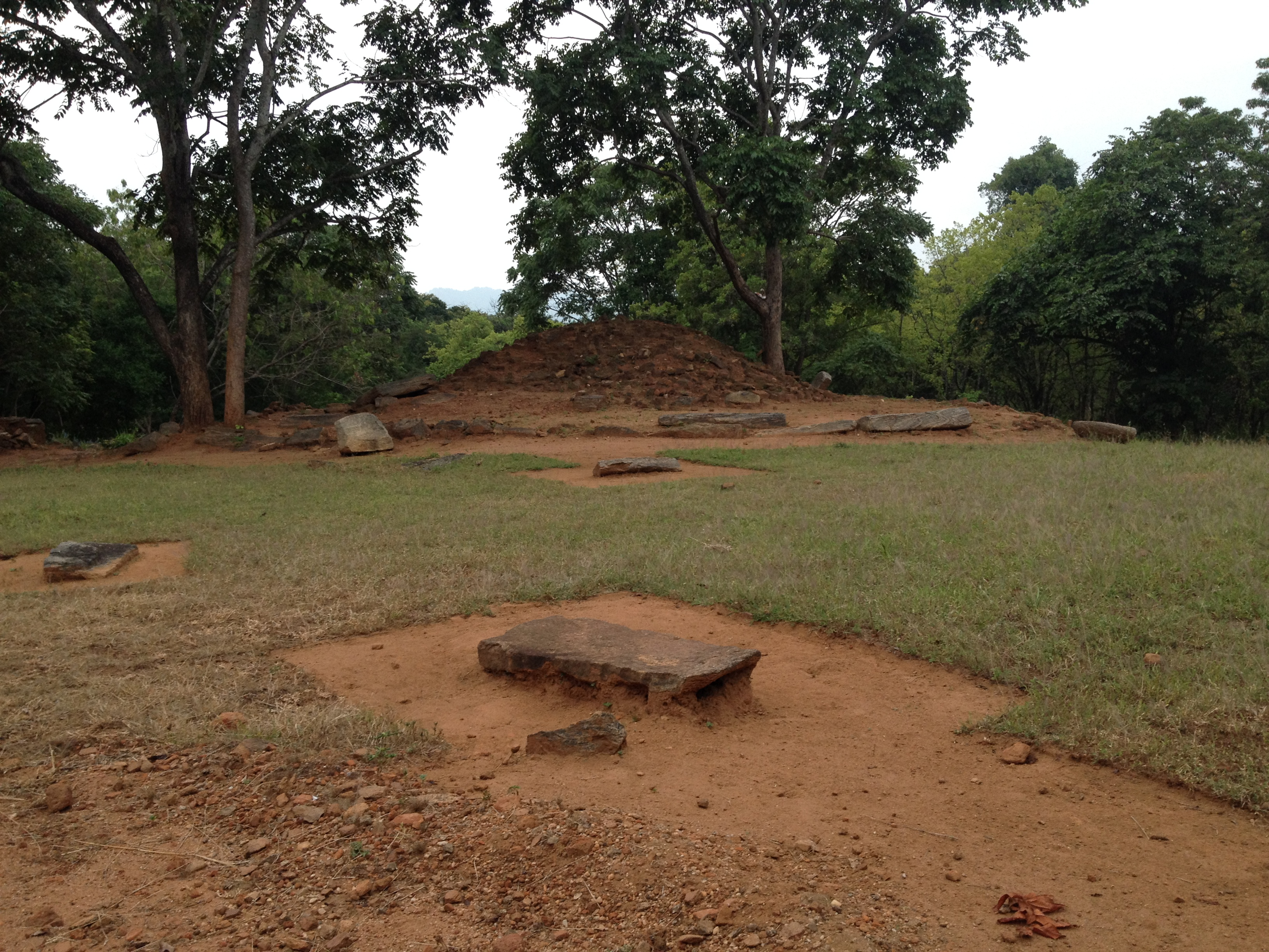 The ruined Stupa and other remnants